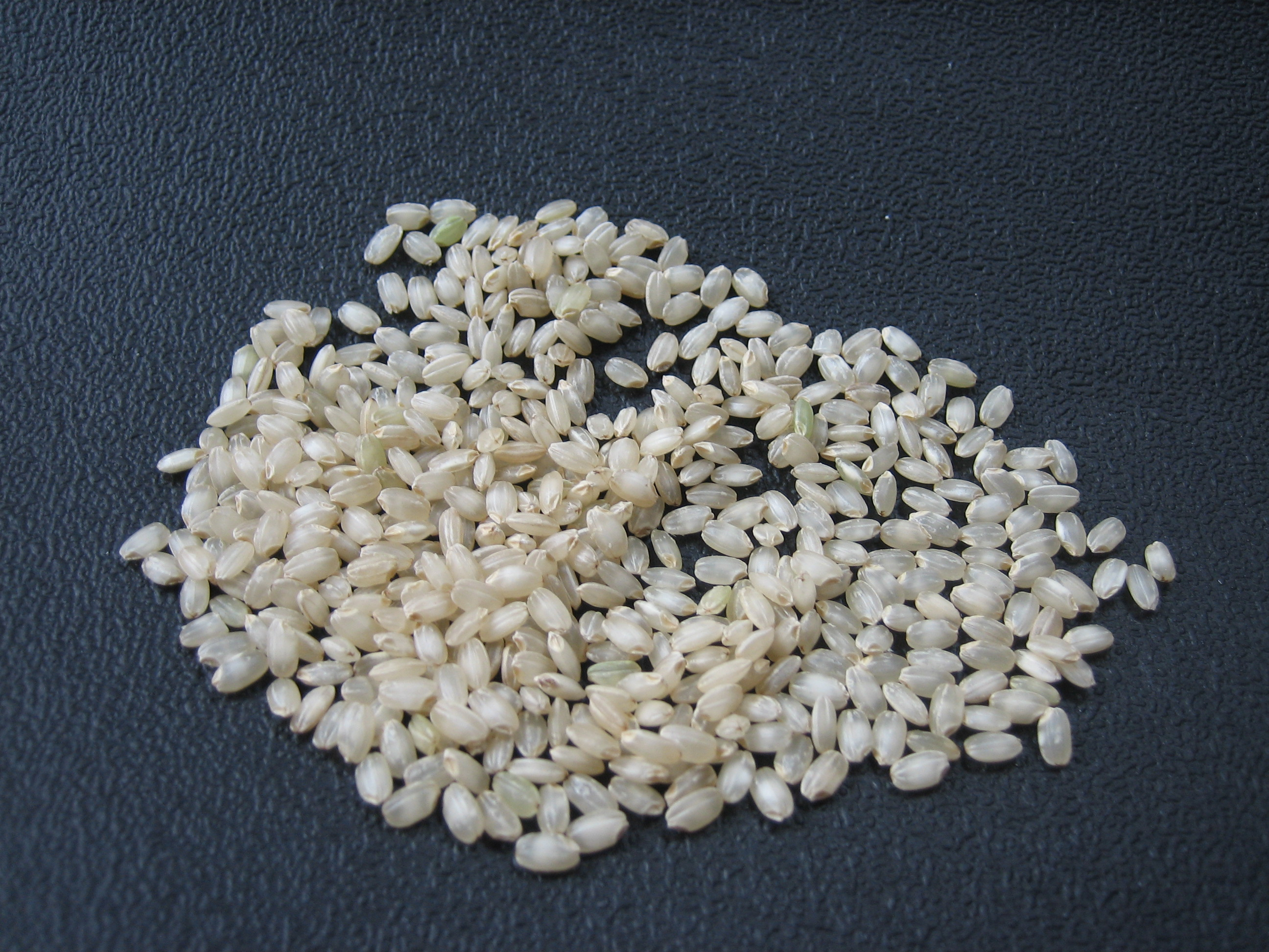 Yamada Nishiki rice (unpolished) from Hyogo